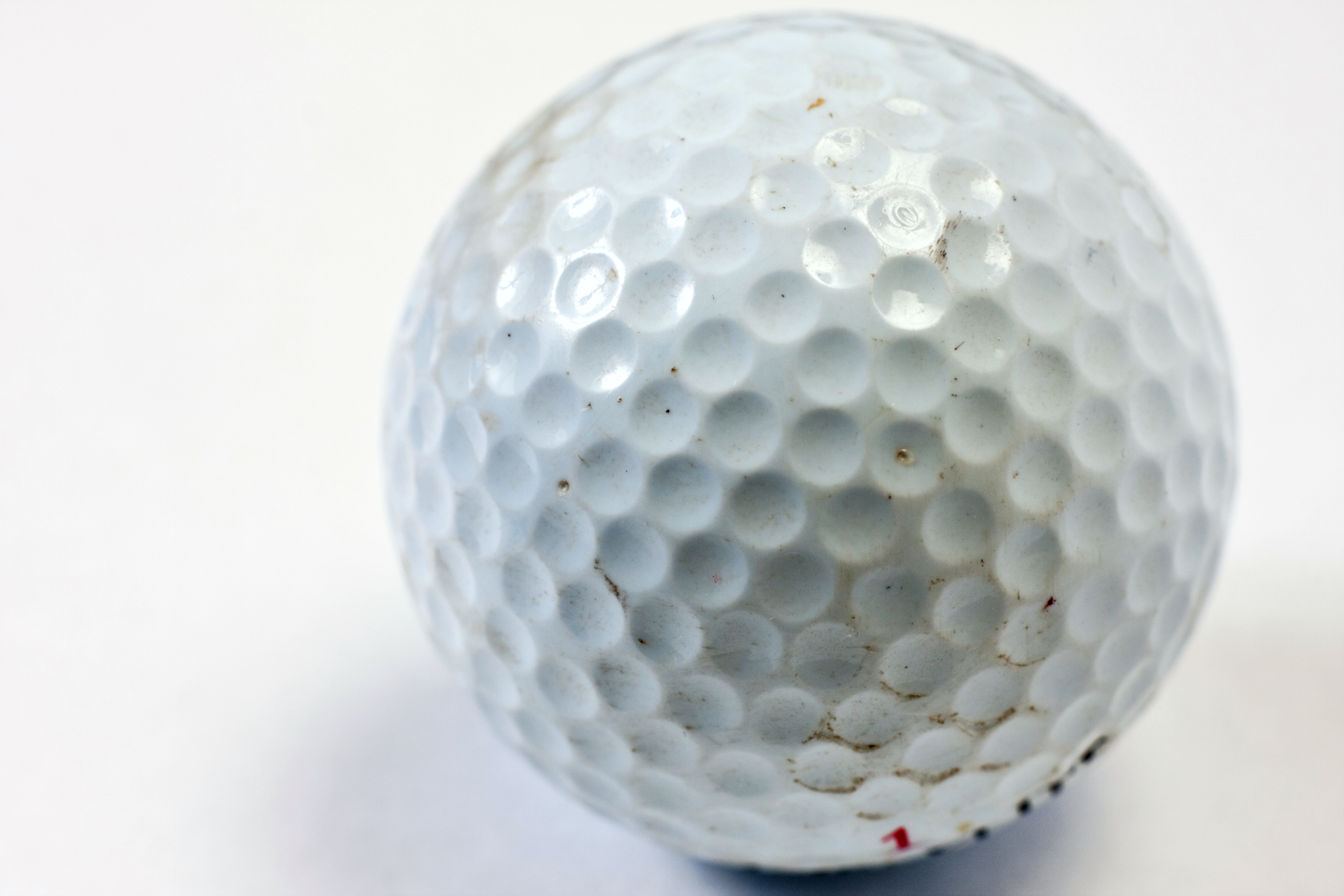 Macro shot taken of a white golf ball with some tiny red an black writings on the lower side, barely visible. It also has some scratches and dirt marks on its shiny surface comprising of numerous circular shapes.